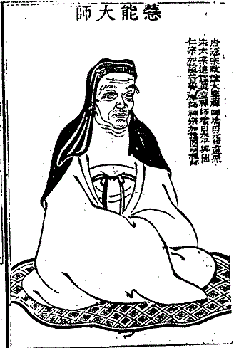 Portrait of Huineng